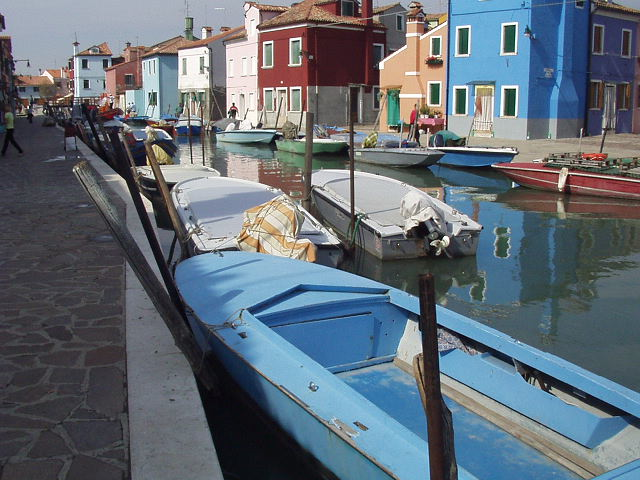 Channel at Burano island